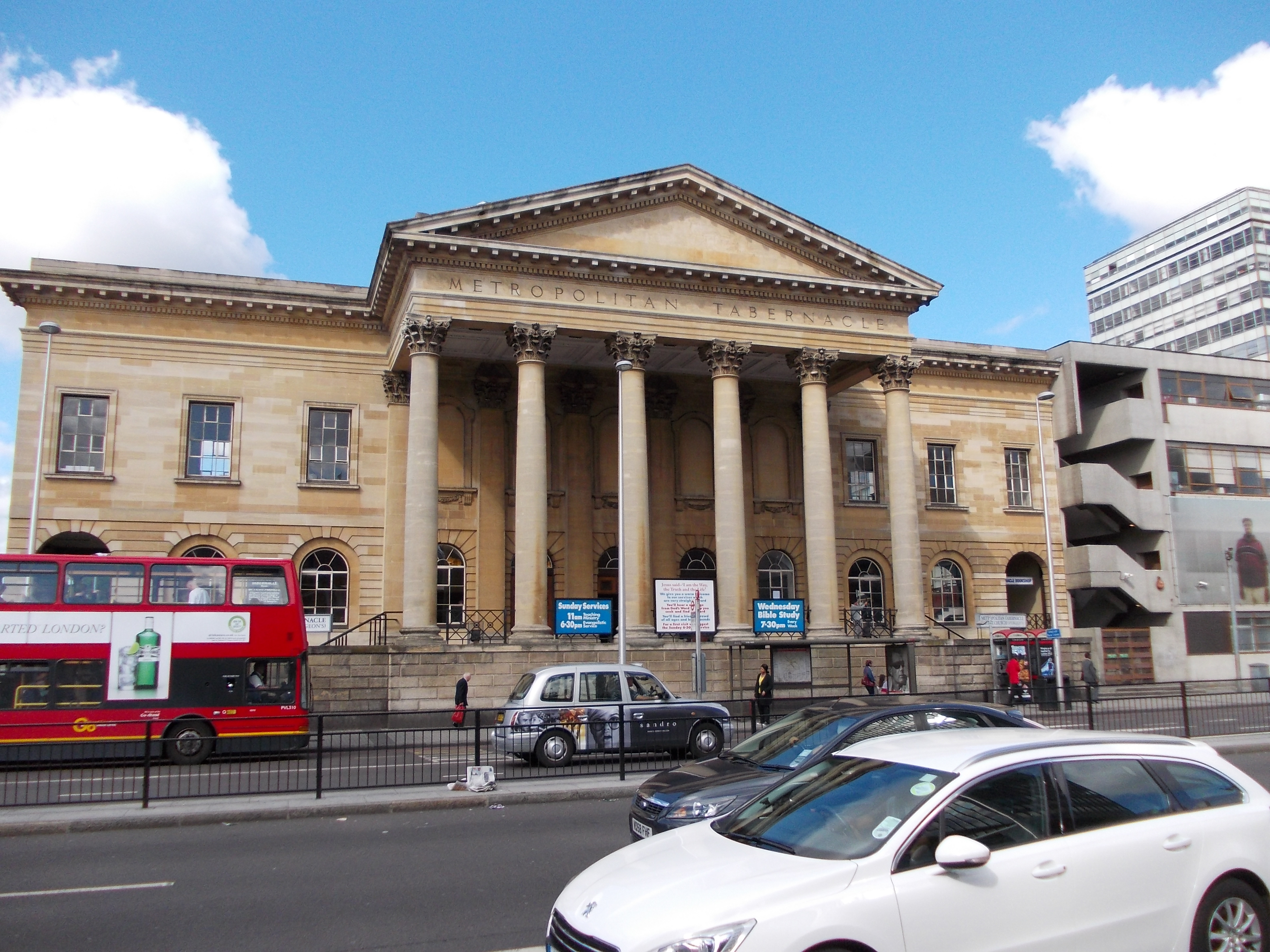 Metropolitan Tabernacle, Newington Butts, London SE1, seen from the east